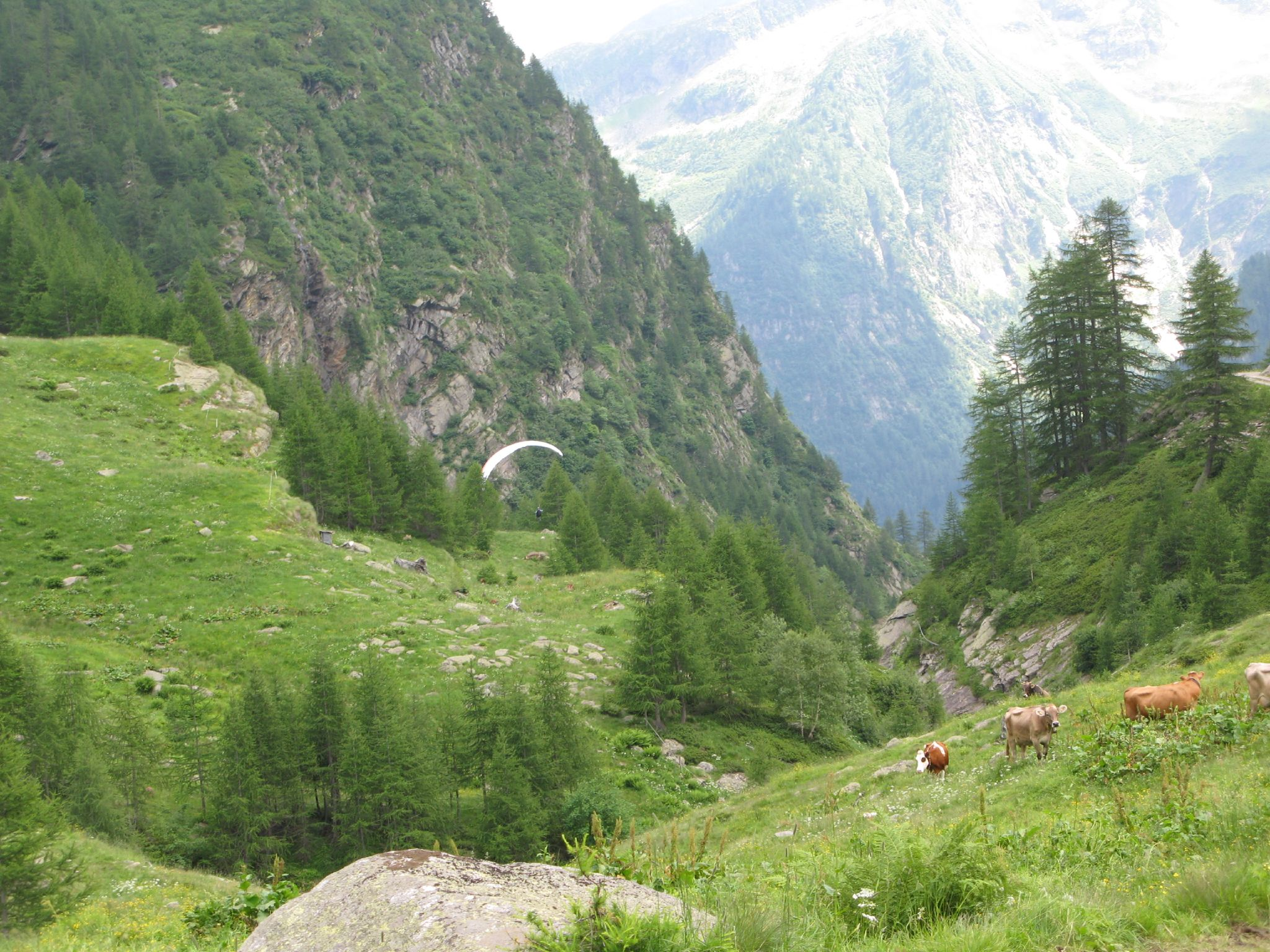 Landing site at Piano di Peccia, in Peccia village, Lavizzara, Ticino, Switzerland